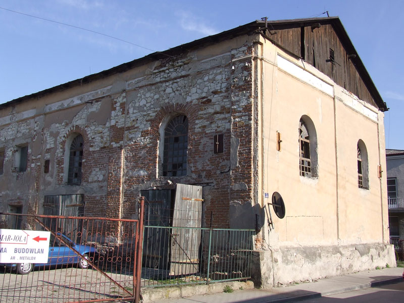 Synagogue in Bychawa